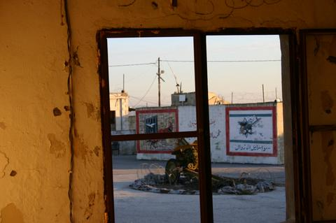 Al Khiam detention camp. Southern Lebanon, 2004. Photo by Bertil Videt.